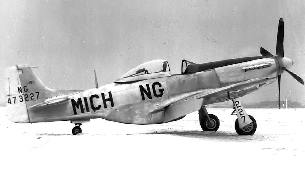 172d Fighter Squadron - North American P-51D-25-NA Mustang 44-73227. Aircraft later sold to SAAF as 388. Transferred to ROKAF, lost in accident Dec 1, 1955